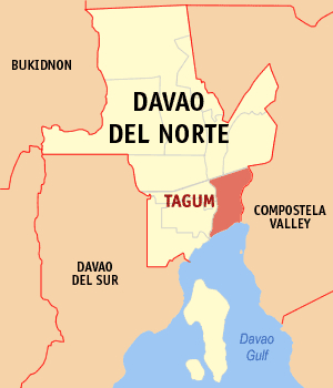 Map of the Davao del Norte showing the location of Tagum City